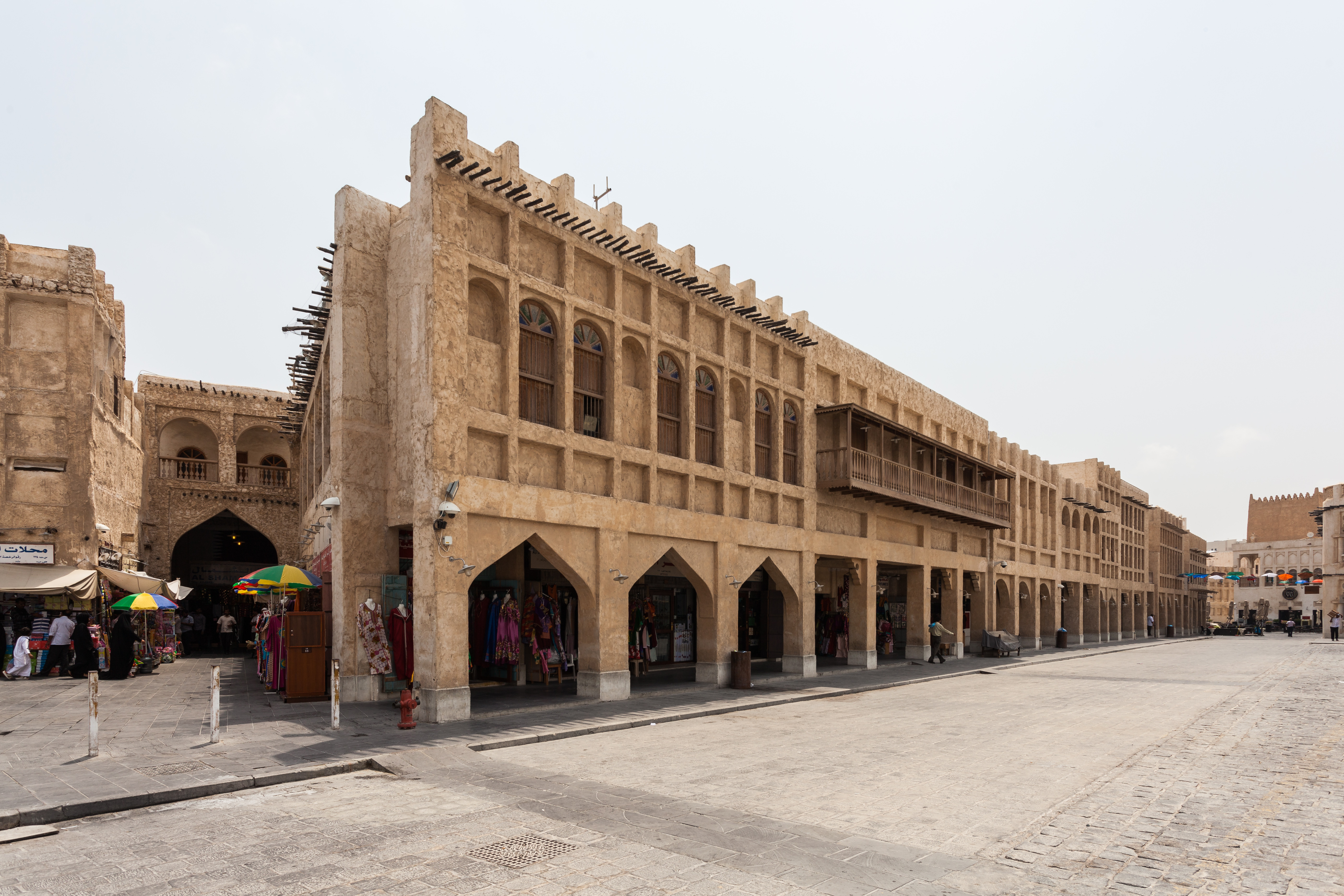 Souq Waqif, Doha, Qatar